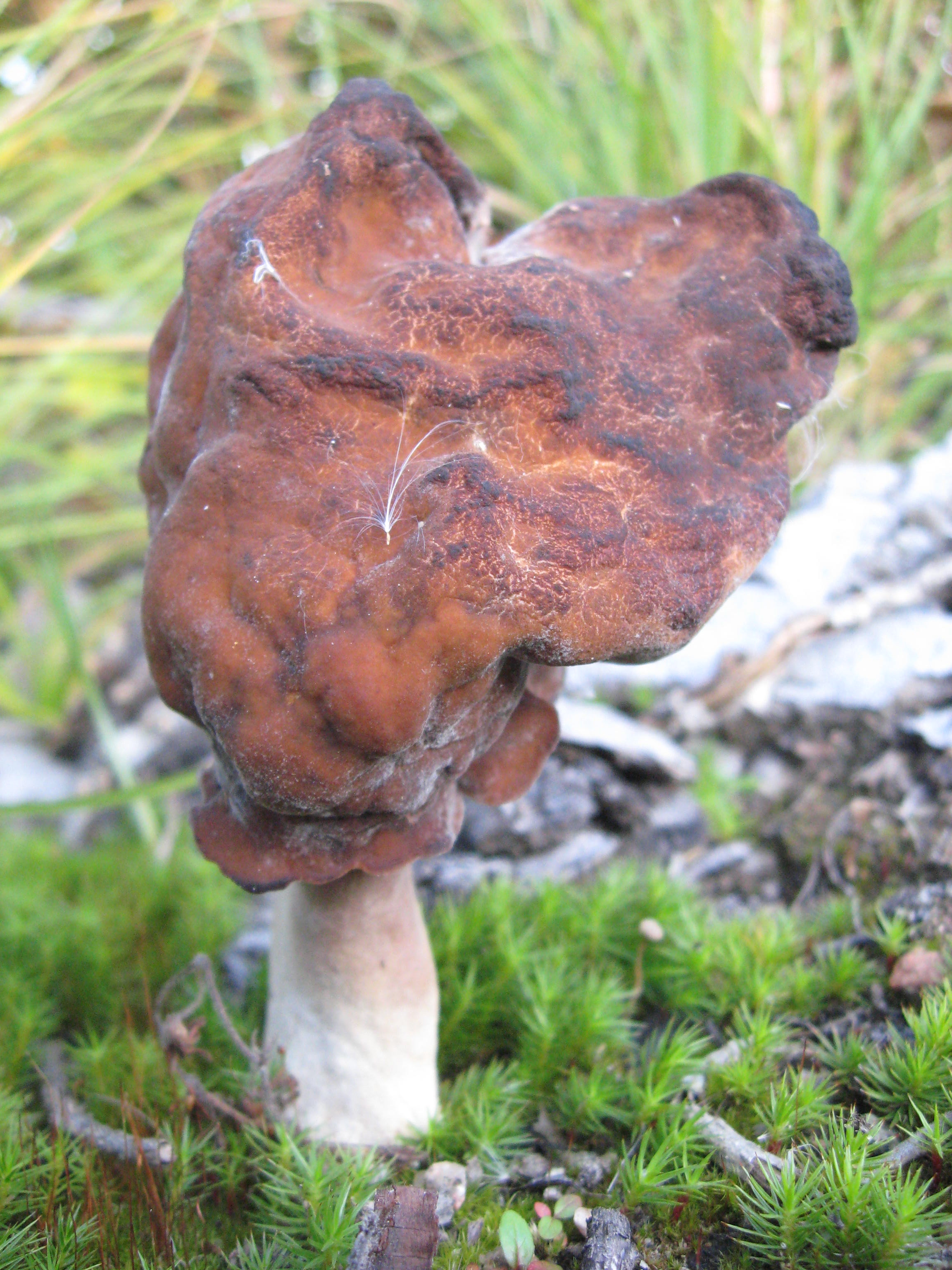 The elfin saddle mushroom, Gyromitra infula. Specimen photographed near La Ronge (Northern Saskatchewan, Canada).